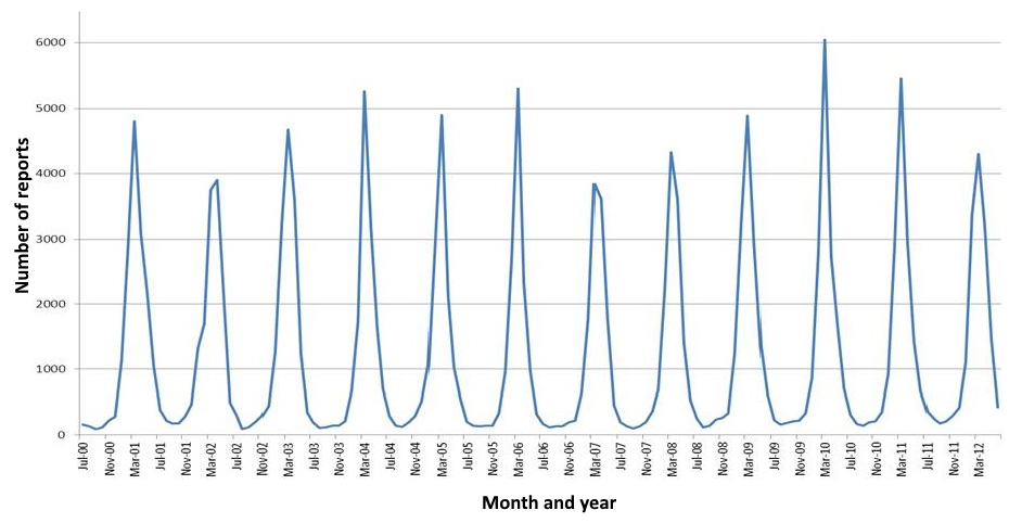 Modified version of Rotavirus seasonal distribution.jpg This is the seasonal pattern of rotavirus infections seen in the UK.